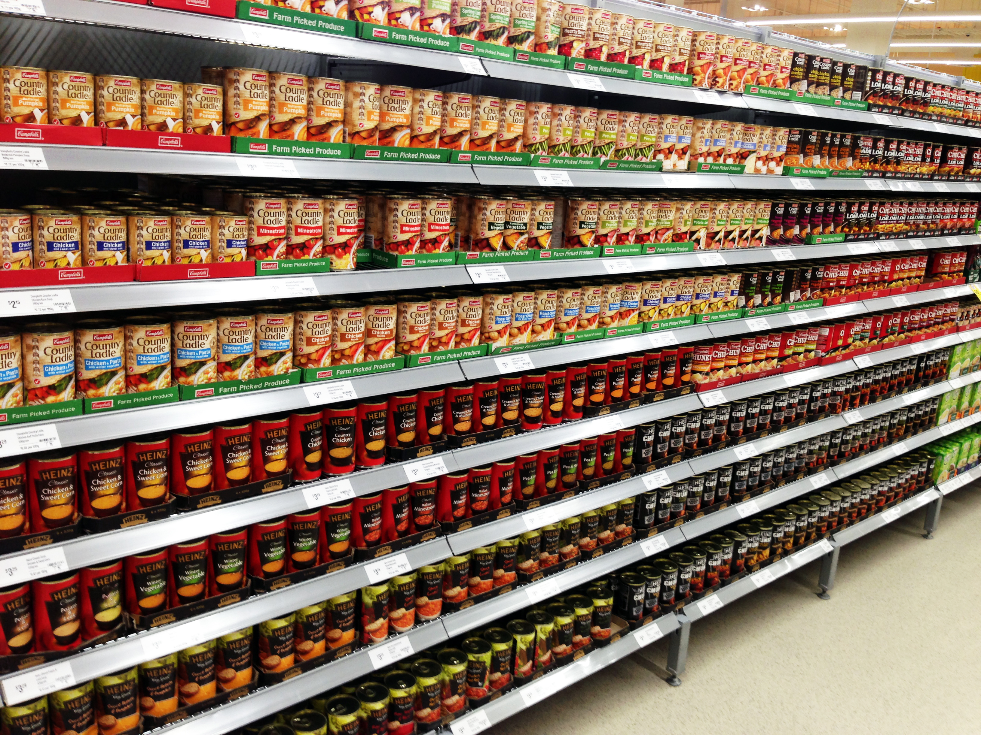 Taken at a Coles supermarket at Southland Shopping Centre in Melbourne, Australia